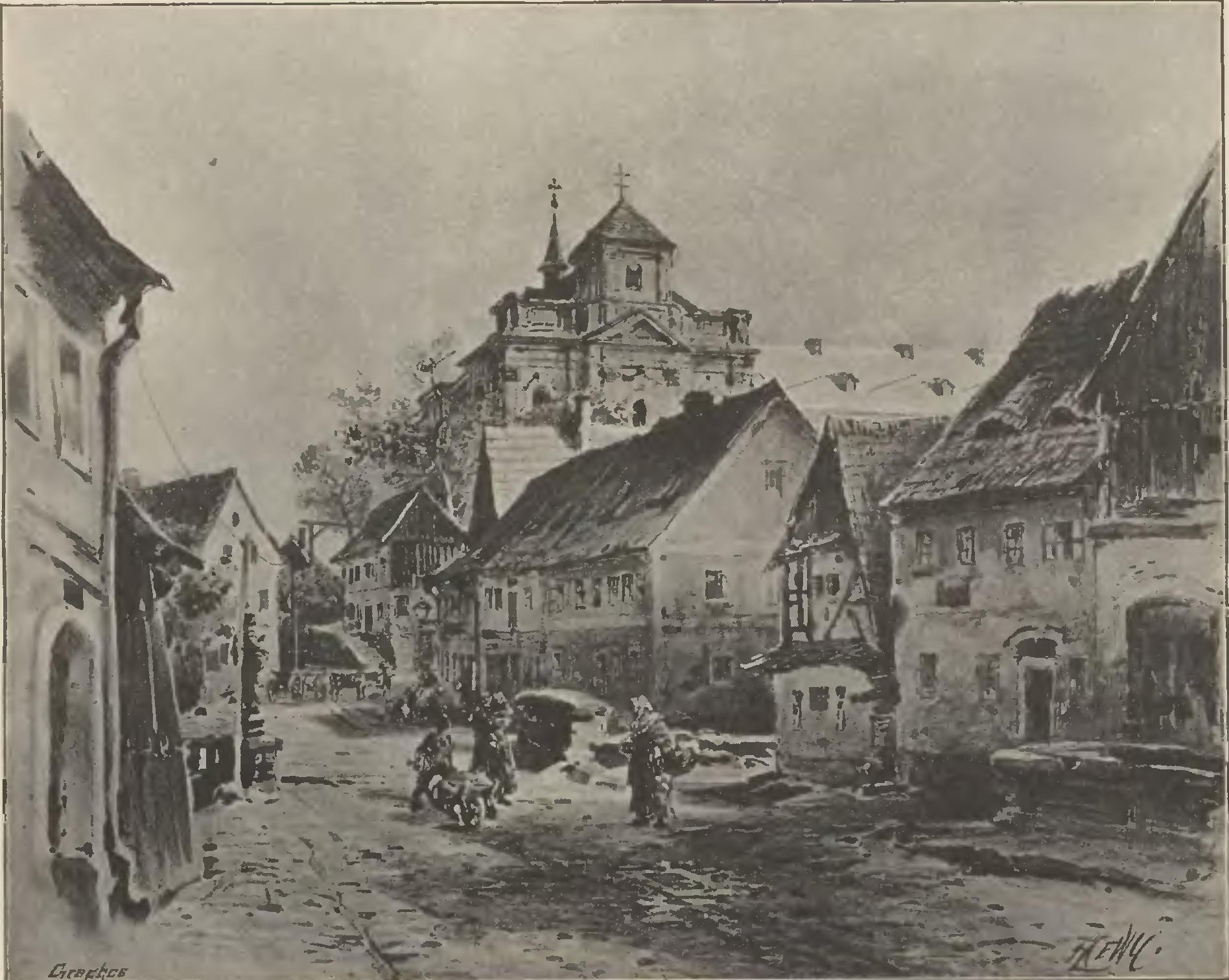 A monastery-church in Doupov, a demolished city in a present-day military area in the Czech Republic.